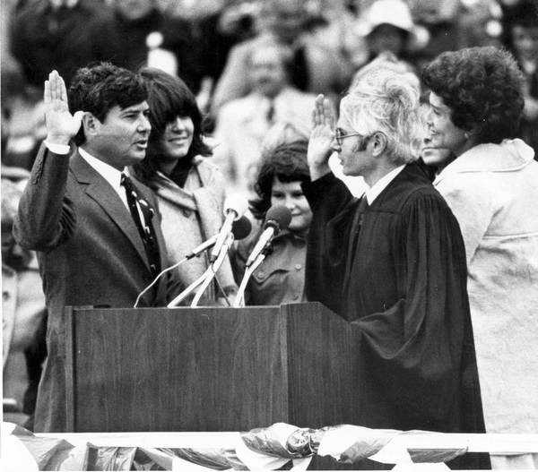 People pictured are Bob Graham, Gwen Graham, Suzanne Graham, Arthur England, Cissy Graham, and Mrs. Bob Graham.